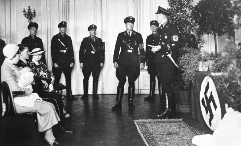 Photo showing a child's baptism (christening) ceremony/ritual; conducted by members of the SS at a "Lebensborn e.V." maternity care home in Rheinhessen somewhere between 1936-1944.